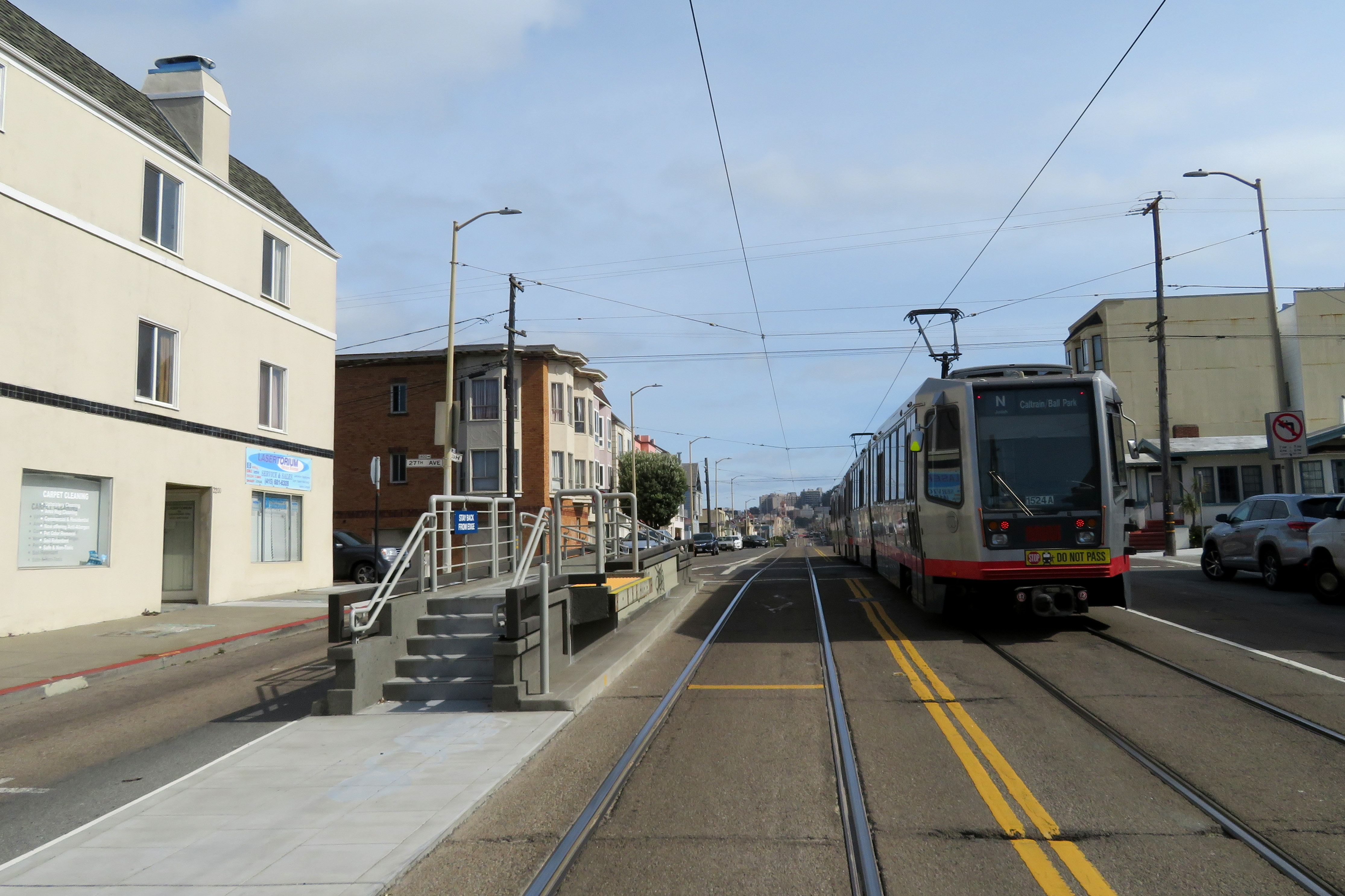 Inbound train passing the outbound mini-high platform at Judah and 28th Avenue station in February 2018